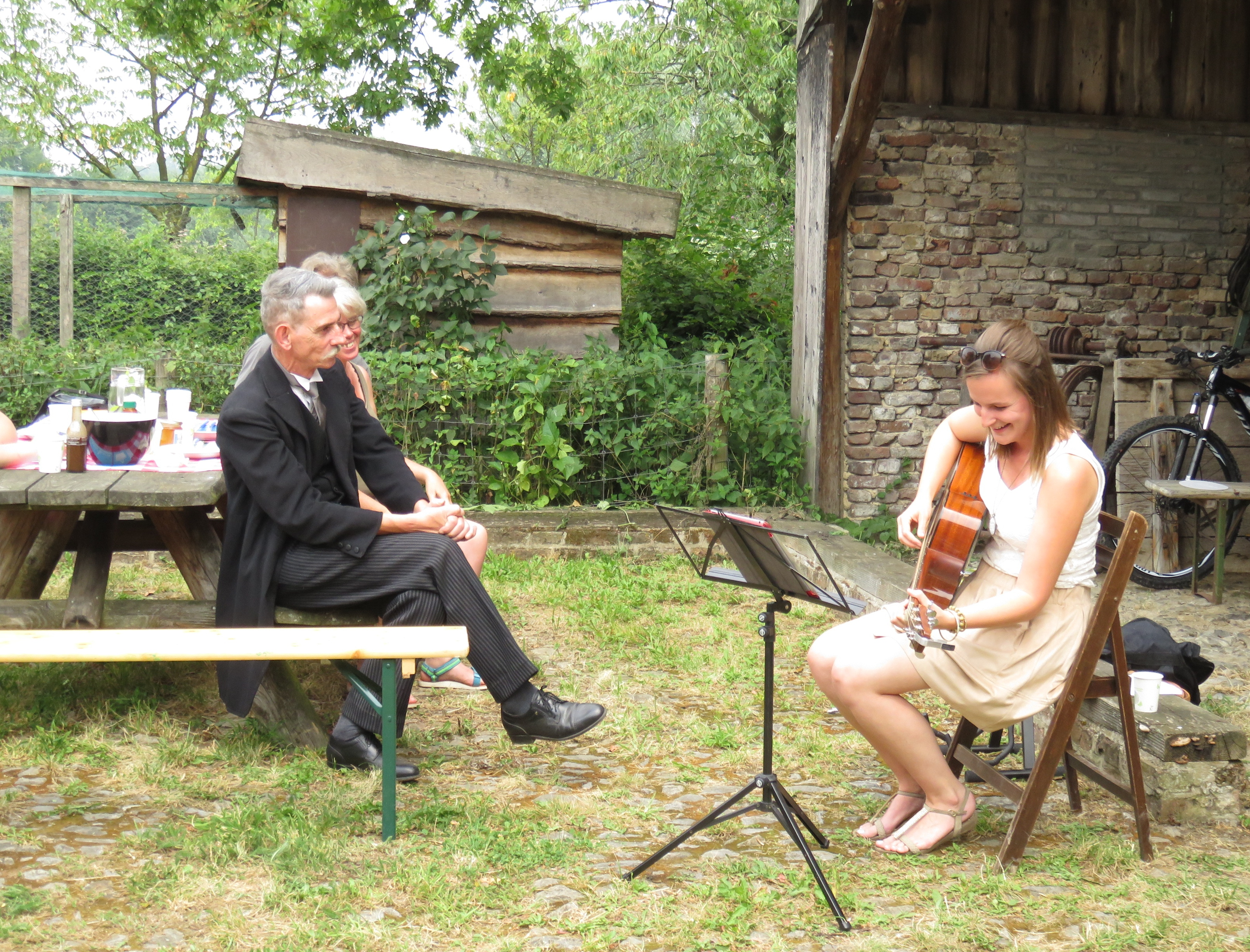 At the remembrance of Heimans in Epen(NL), "Heimans" is listening to a musician from South Limburg